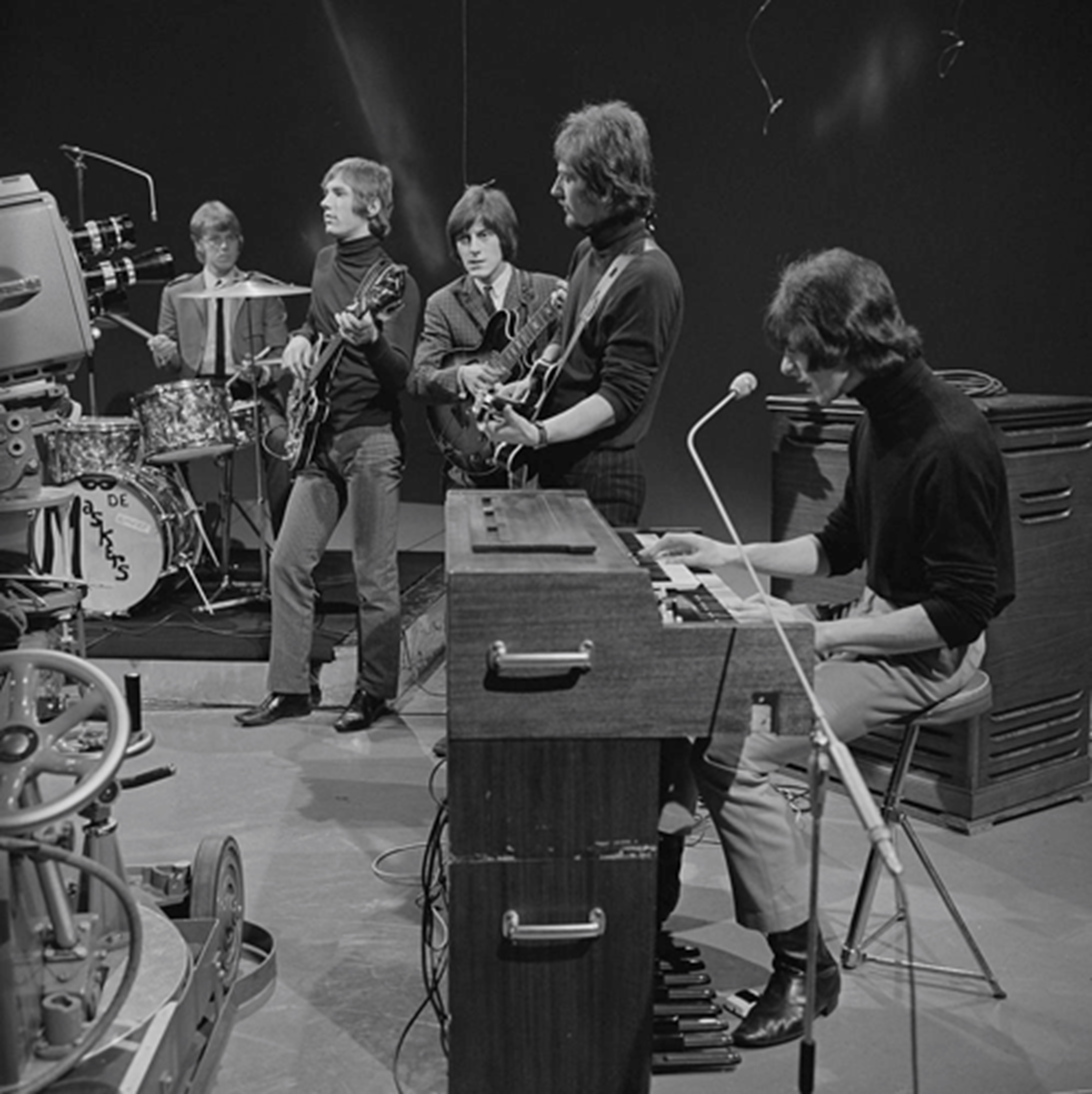 De Maskers performing "Georgia on my mind" in Dutch TV programme Fanclub, 10 Dec. 1966